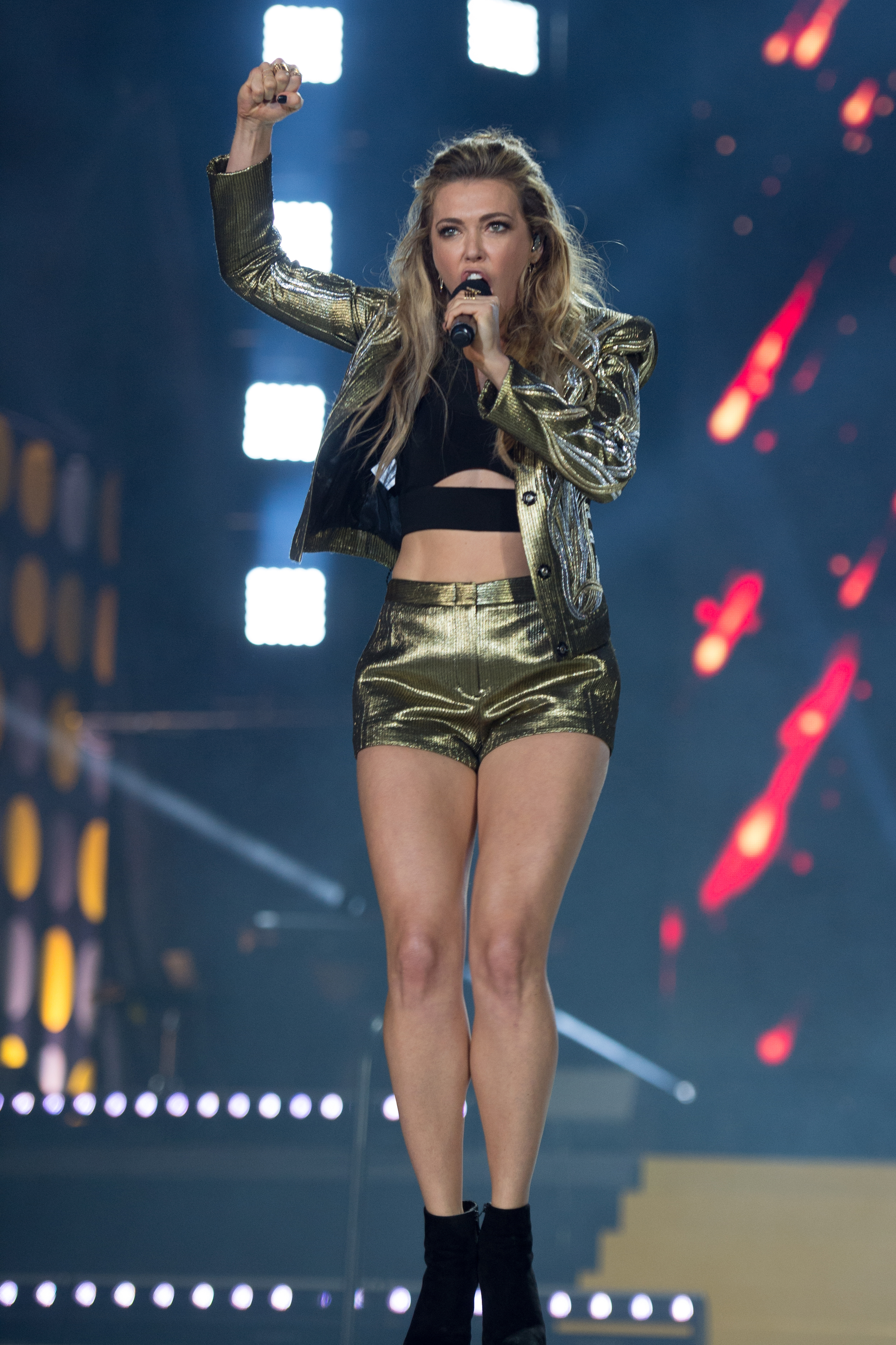 Recording artist Rachel Platten sings ‘Fight Song’ during the 2016 Invictus Games closing ceremonies in Orlando, Fla. May 12, 2016. The song served as the theme song throughout the games. (DoD photo E. Joseph Hersom)